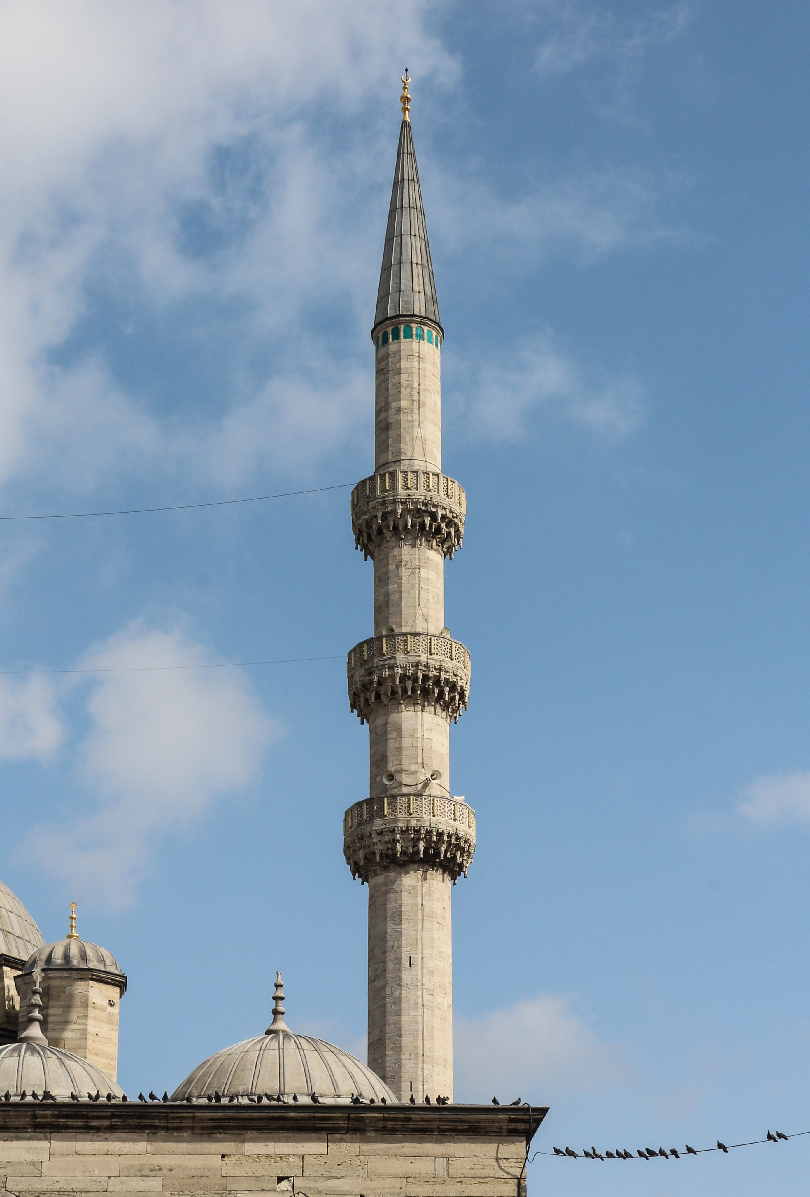 Minaret of the New Mosque (Yeni Camii), Istanbul